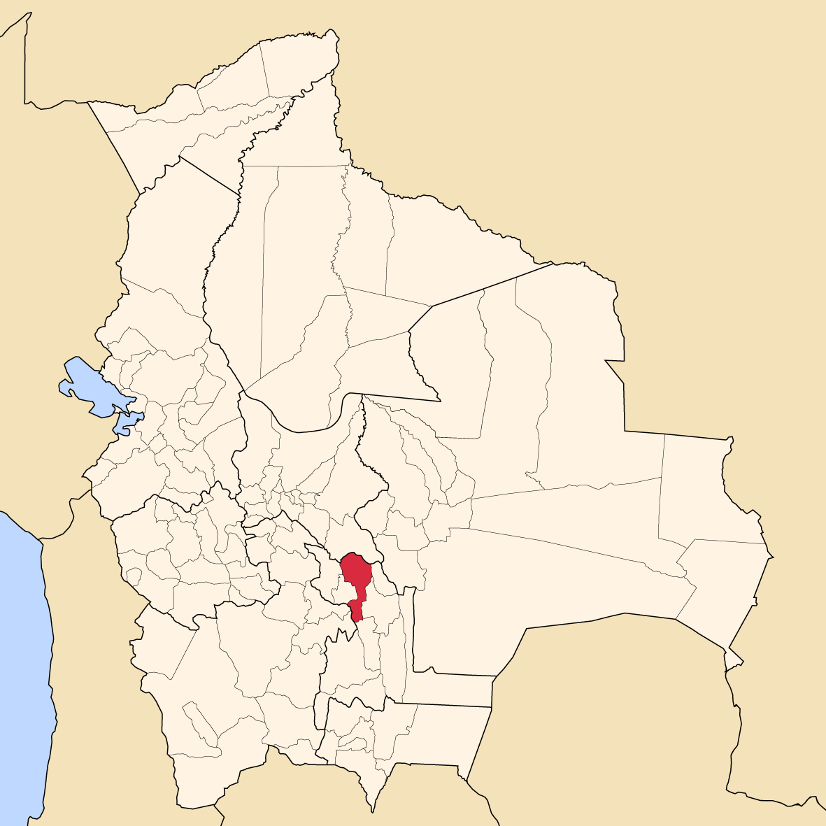 Map of Bolivia showing Jaime Zudáñez province, Chuquisaca